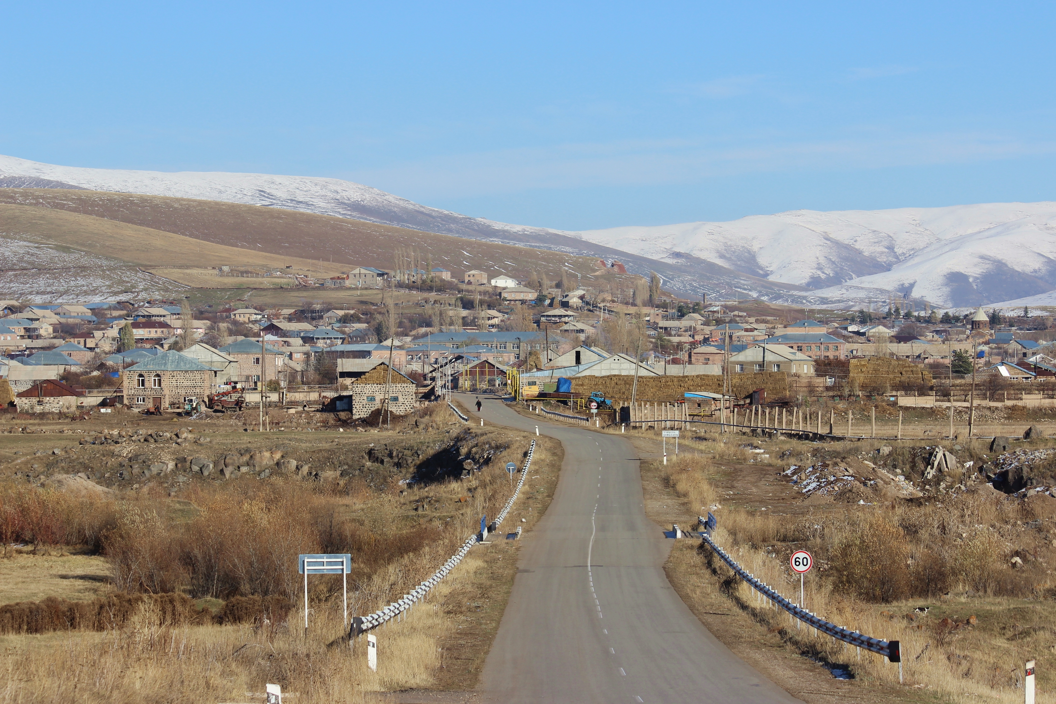 Ddmashen, Gegharkunik Province, Armenia along the road leading from neighboring Zovaber.